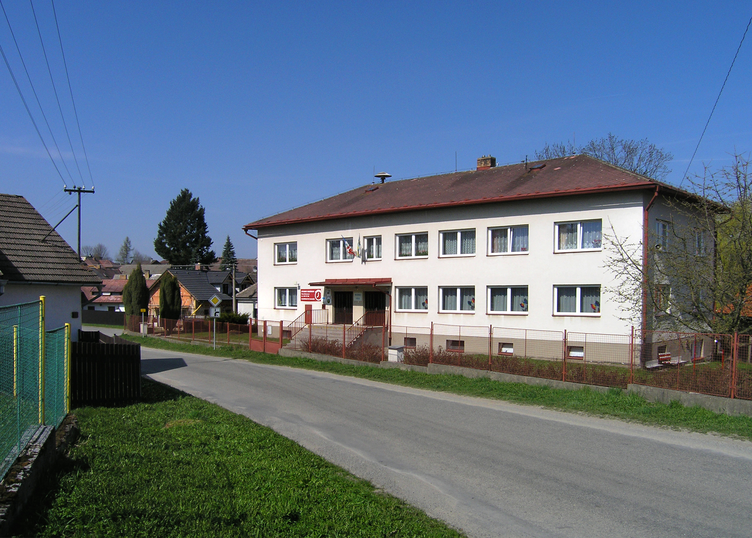 Municipal office in Budíkov village, Czech Republic